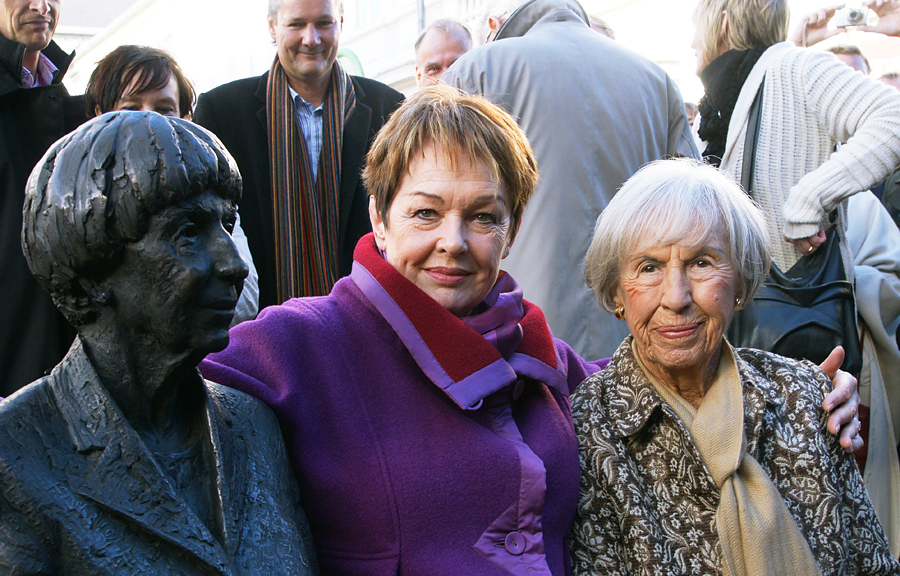 Statue of Danish writer and journalist Lise Nørgaard on Algade, the mainstreet in Roskilde revealed by Danish actress Ghita Nørby in presence of Lise Nørgaard herself (Oct. 1, 2010).